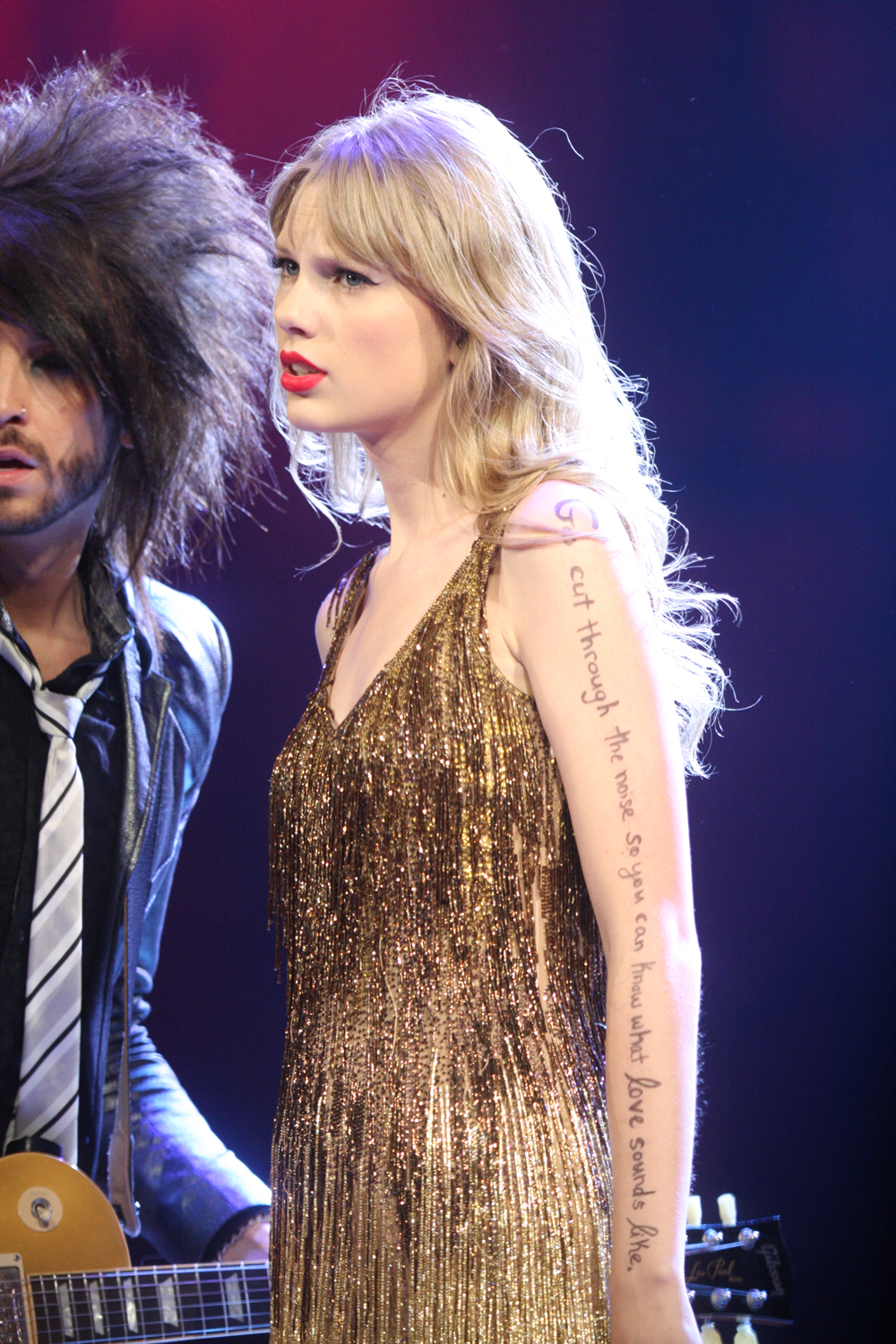 Taylor Swift Speak Now Tour Hots Sydney, Australia